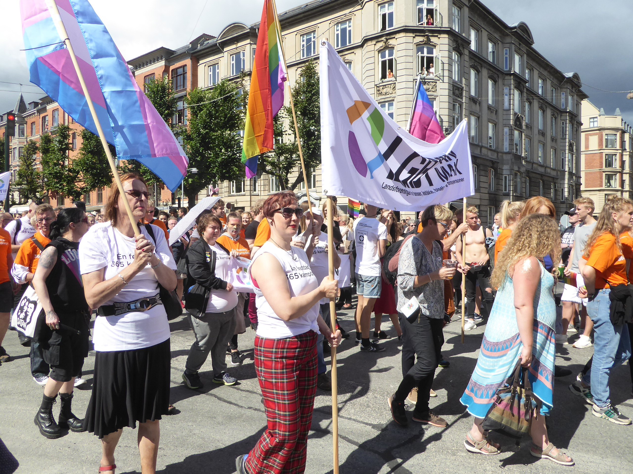 LGBT Danmark at Copenhagen Pride Parade on Frederiksberg Allé in Copenhagen.